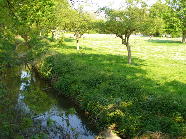 Riverside Meadow, Sunbury Large grassy area on the "Middlesex Bank" of the River Thames. It lies between a ditch and the river.